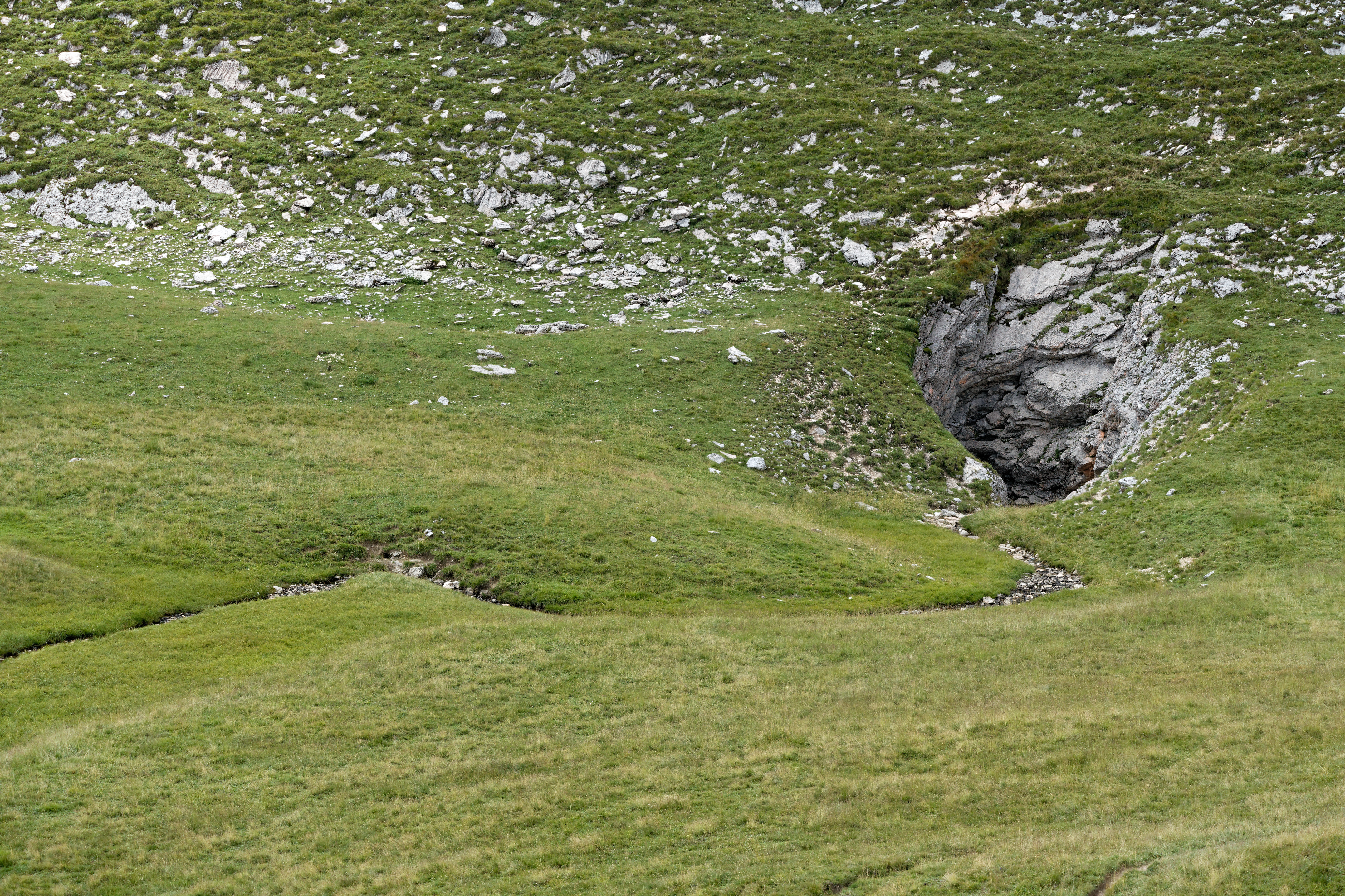 Ponor at the foot of Monte de Fóses in Dolomites.